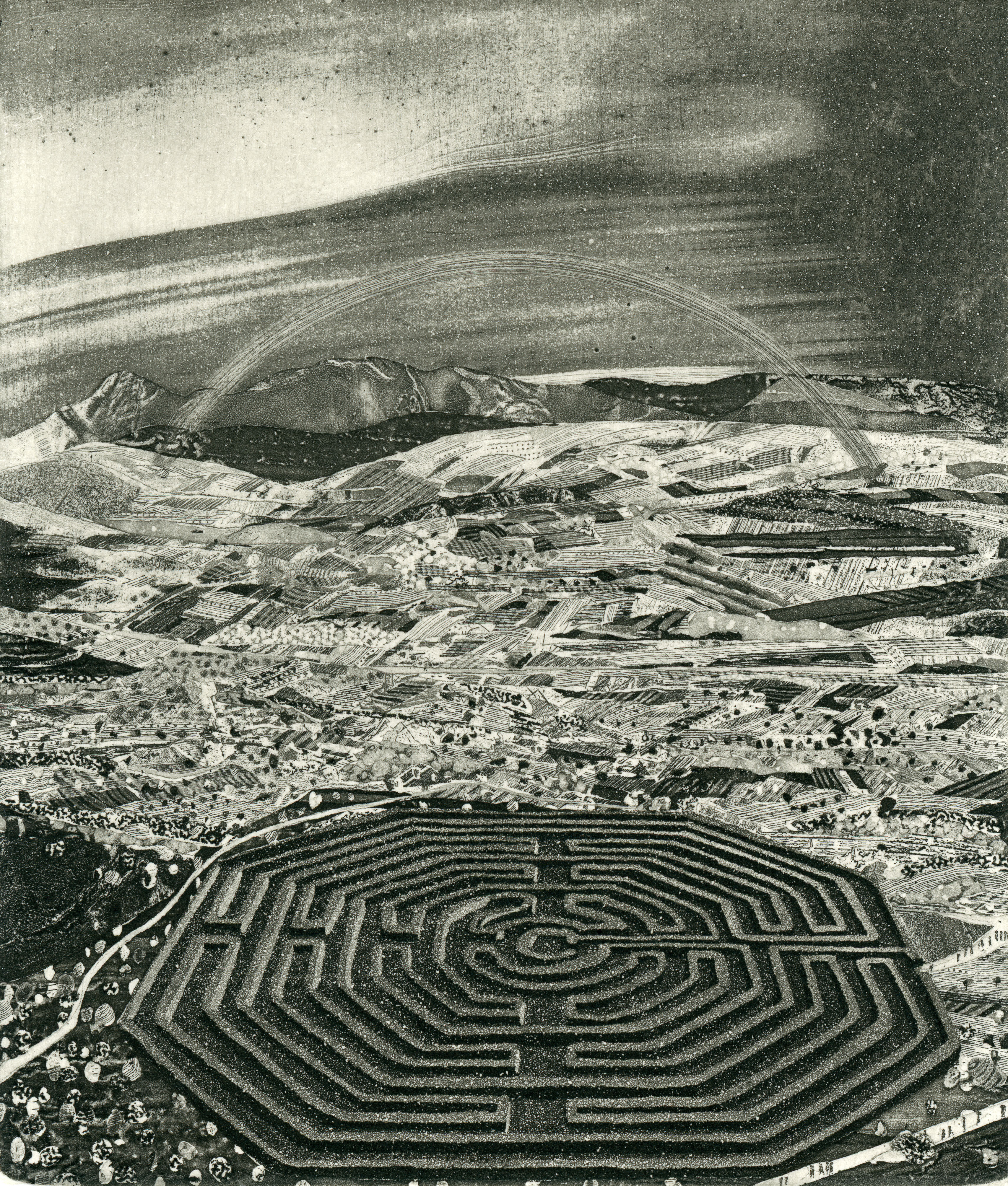 Labyrinth 12, etching, aquatint, soft-ground etching, Engraved and designed by Toni Pecoraro 1998.